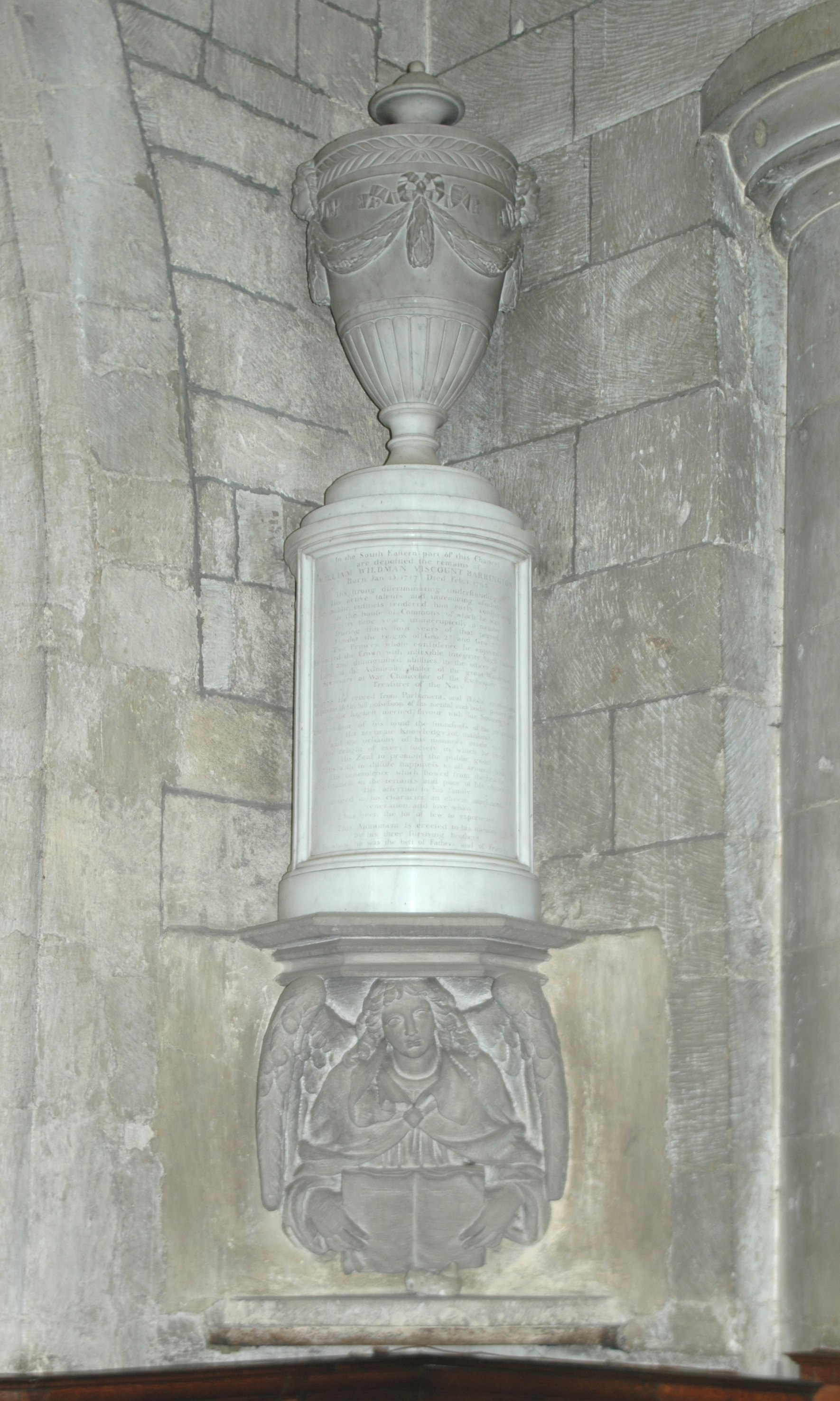 Church of England parish church of St Andrew, Shrivenham, Vale of White Horse, England: monument to William, 2nd Barrington, died 1793